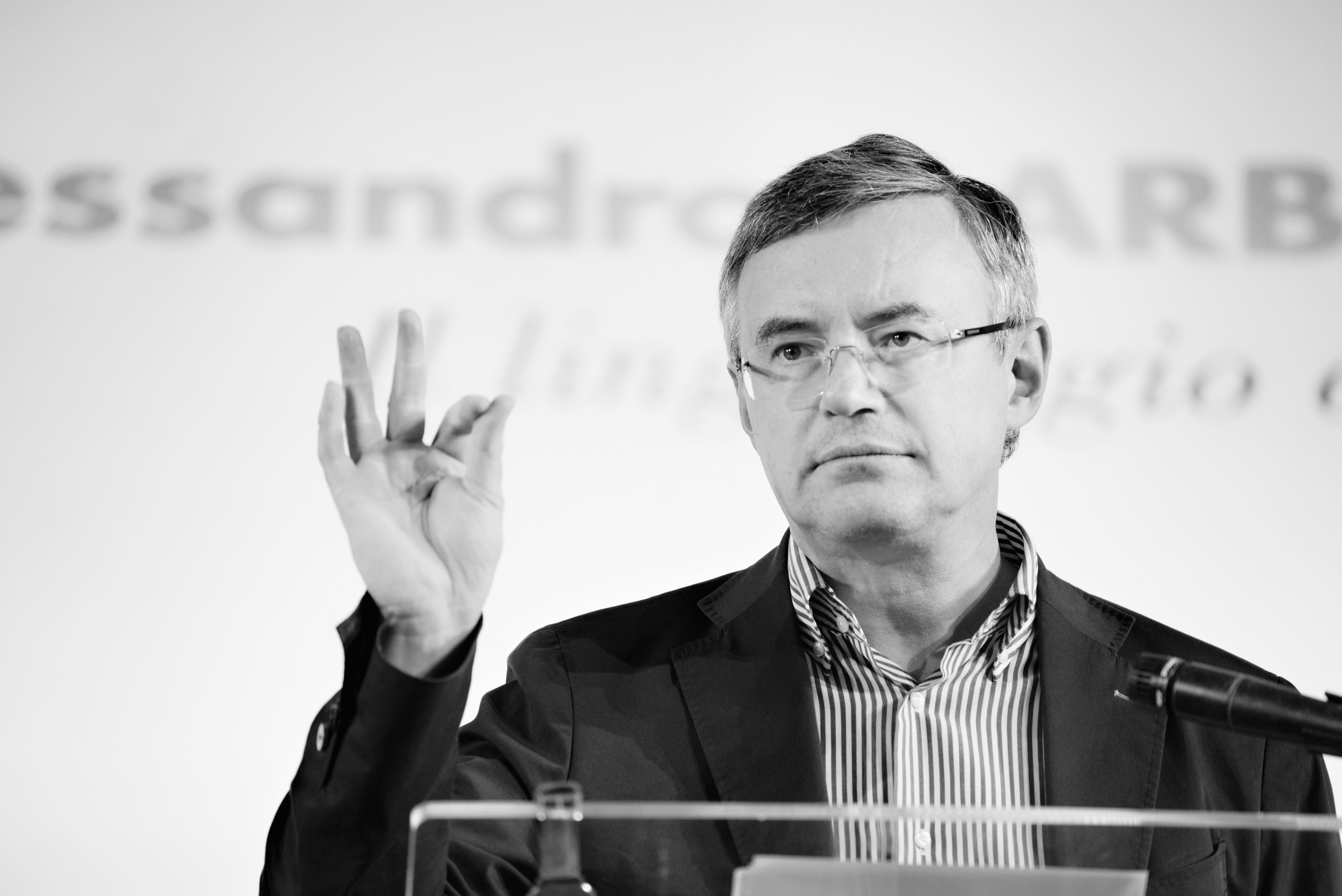 The historian Alessandro Barbero at the Camogli Communication Festival, 2015